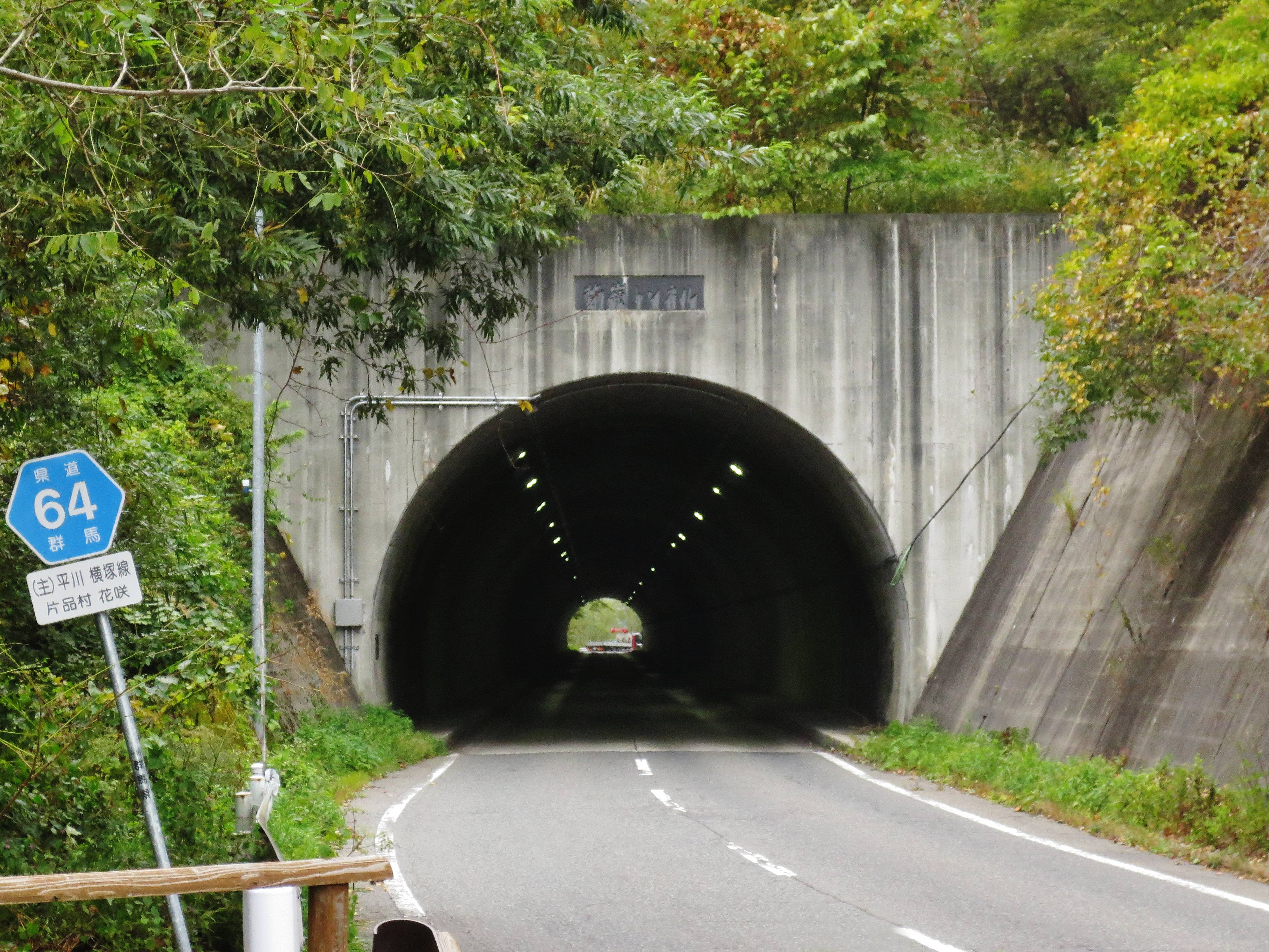 Semine Tunnel (Katashina, Gunma).